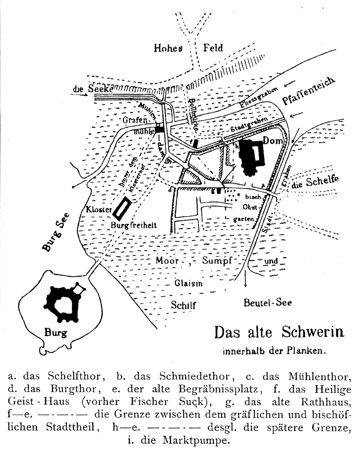 Map of Schwerin before 1340